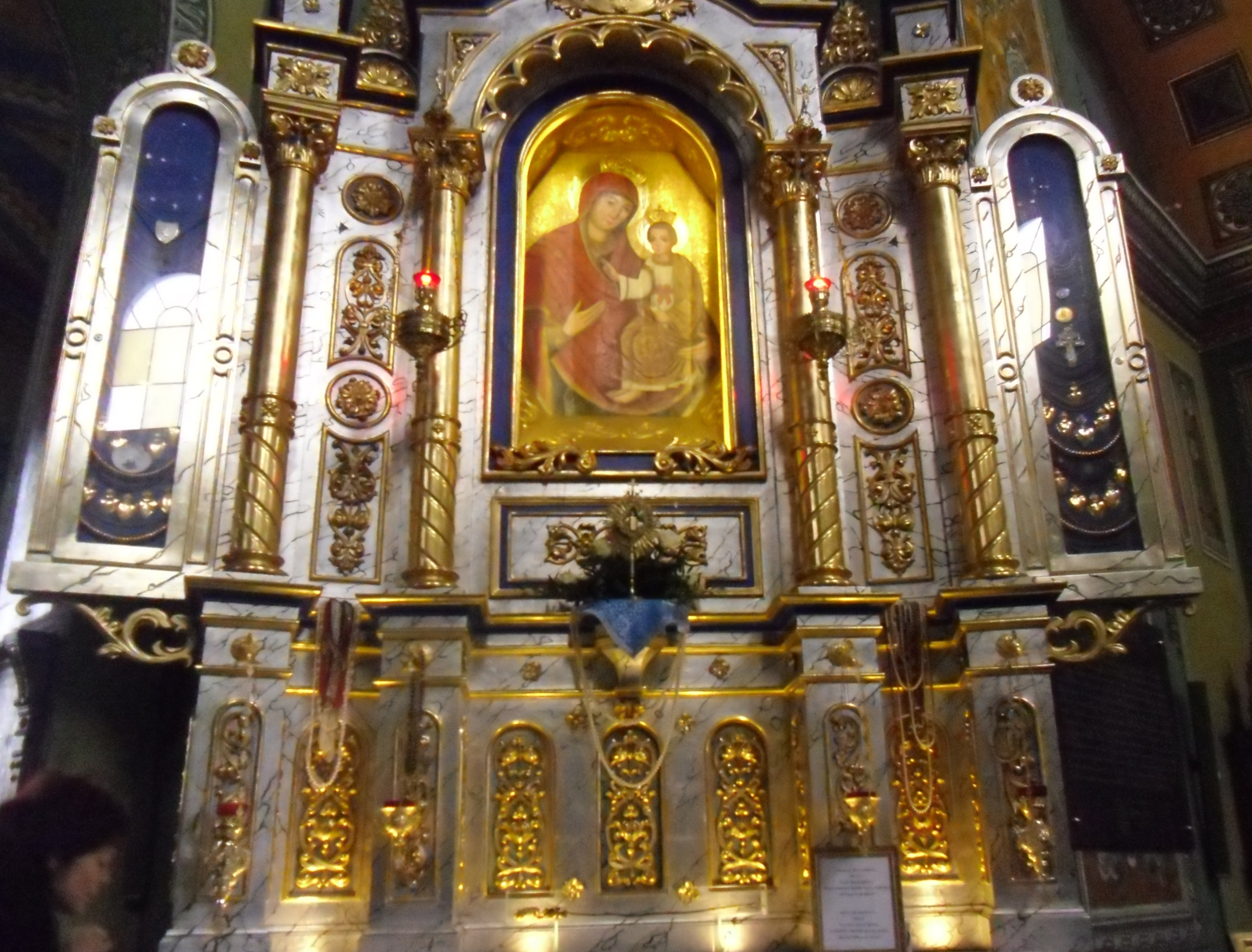 Of Yaroslavl miracle-working the icon of Our Lady of the “Gate of Mercy”. Catholic Church of the Transfiguration in Jarosław, Poland. It is a major centre of pilgrimage of Polish Greek Catholics.